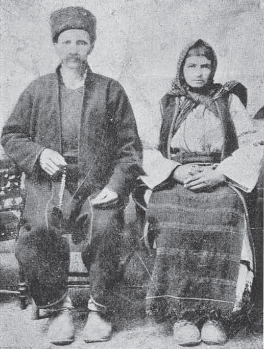 Portrait of Yordzhe Dichev and his wife